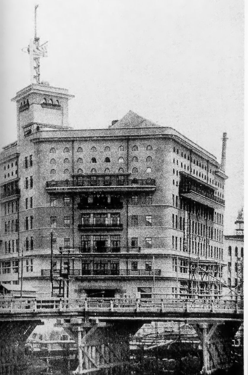 Ishimoto Kikuji: Asahi building, 1927, Tokyo.